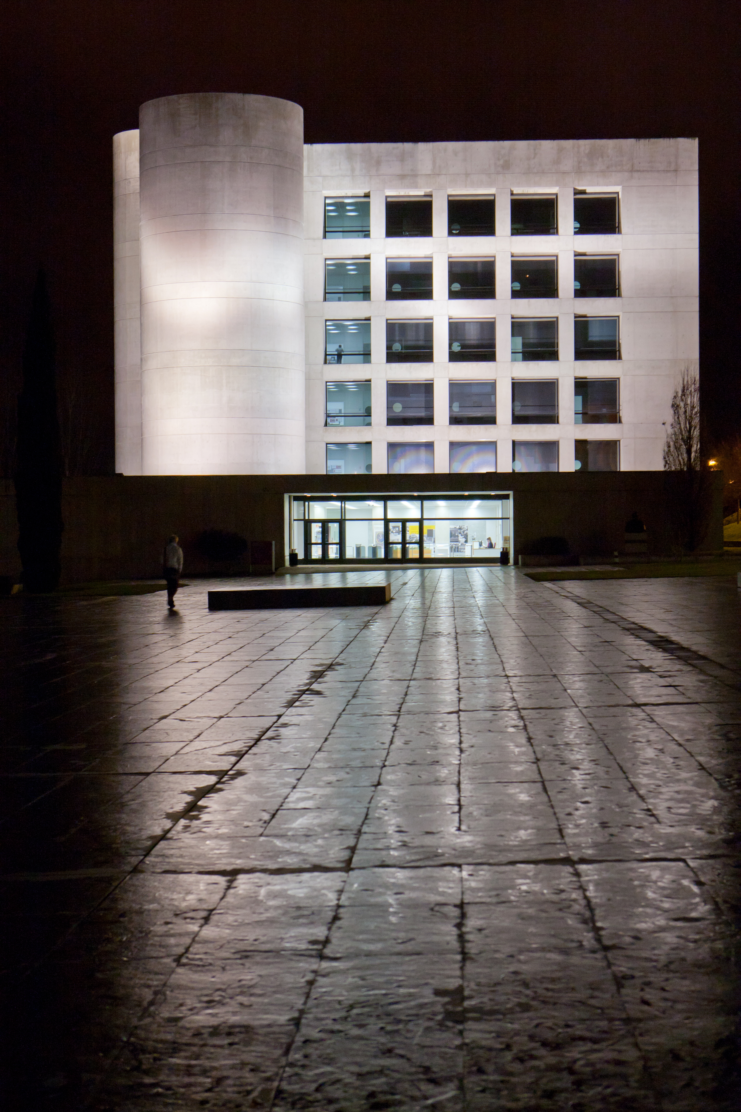 Central Library - University of Navarra